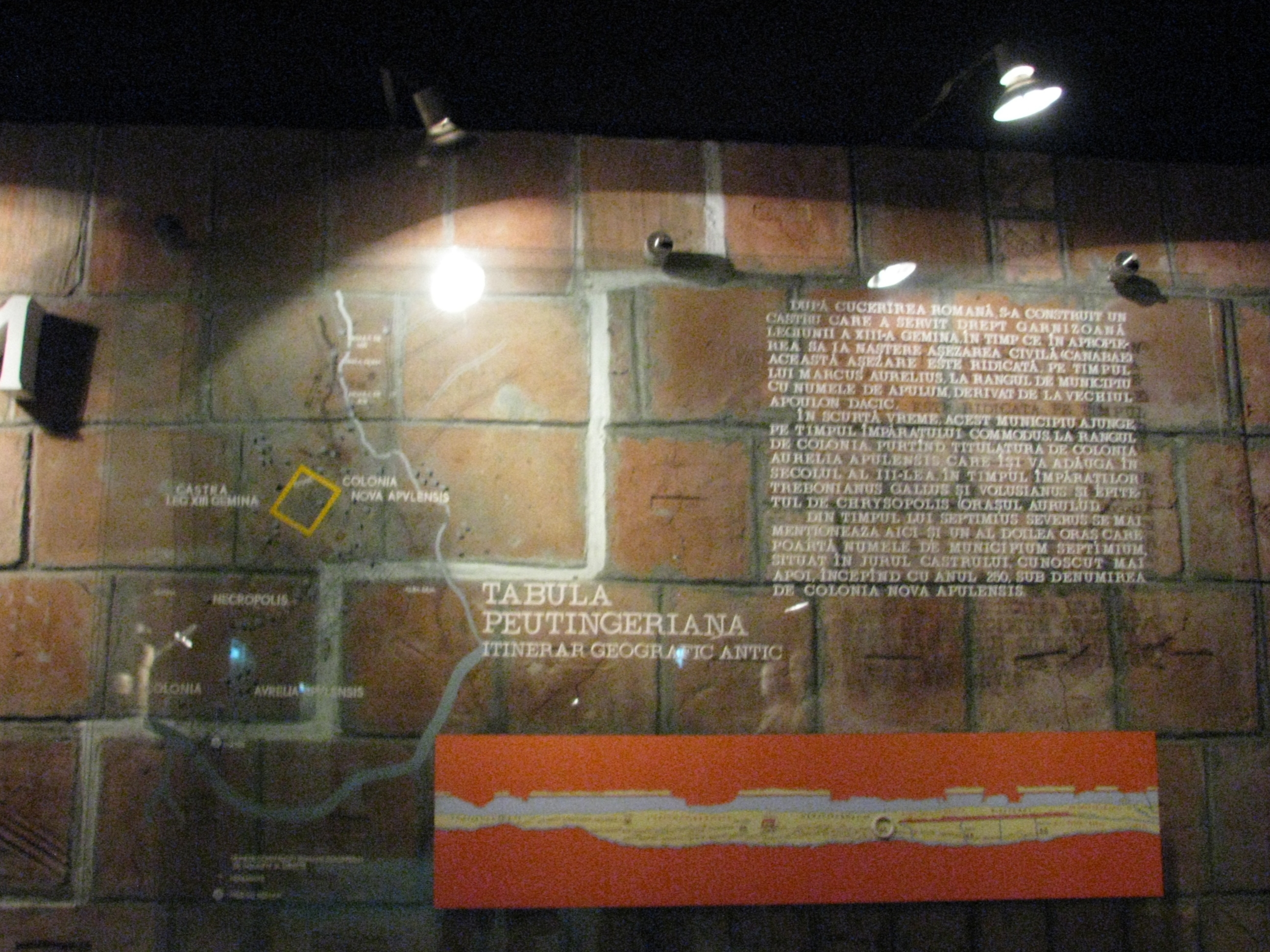 Alba Iulia National Museum of the Union 2011